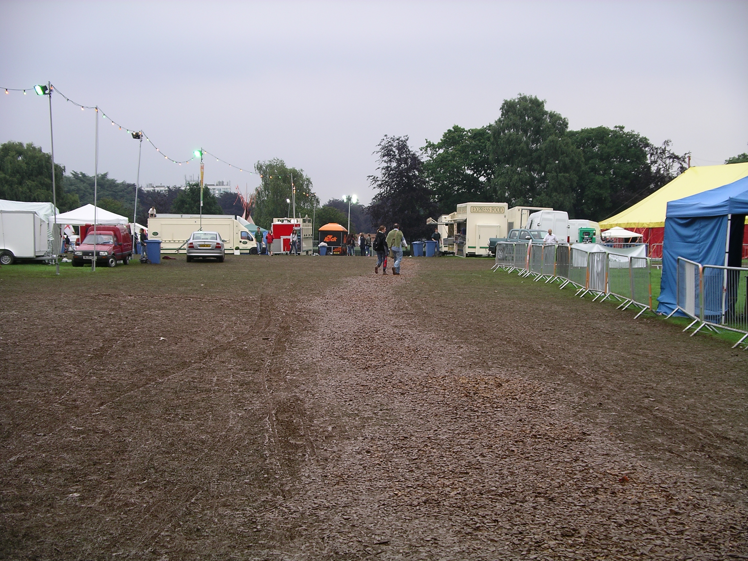 Photo of the muddy ground on the Sunday after the final events of 2007 Godiva Festival, Coventry, England. The ground was cut green grass prior to the event. Some woodchips have been spread over the mud as a preventative measure.